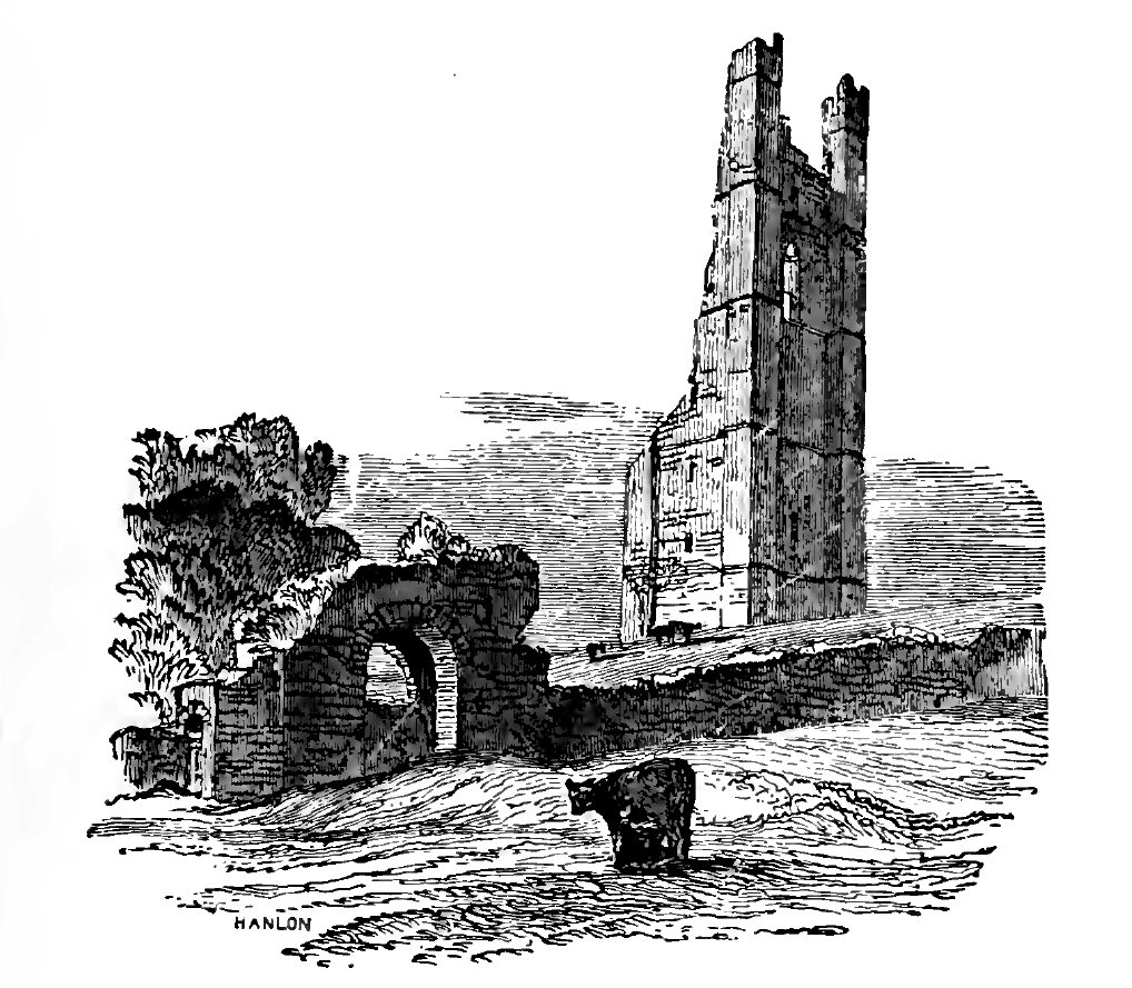 From page 399 of Wakeman's handbook of Irish antiquities. Original caption: The 'Sheep' Gate and Yellow Steeple, Trim, Co. Meath. The Sheep Gate is the remaining section of the city walls of Trim and the Yellow Steeple is part of the remains of St. Mary's Abbey.